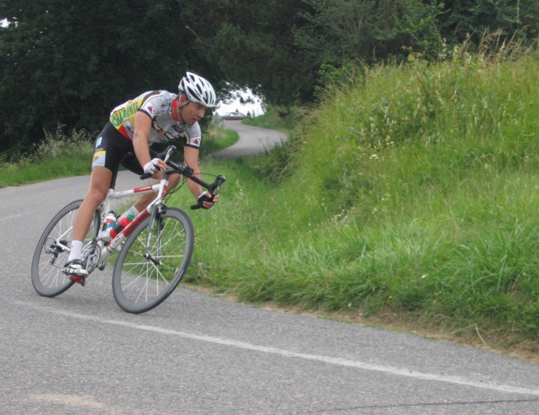 Tour du Tarn et Garonne 2008